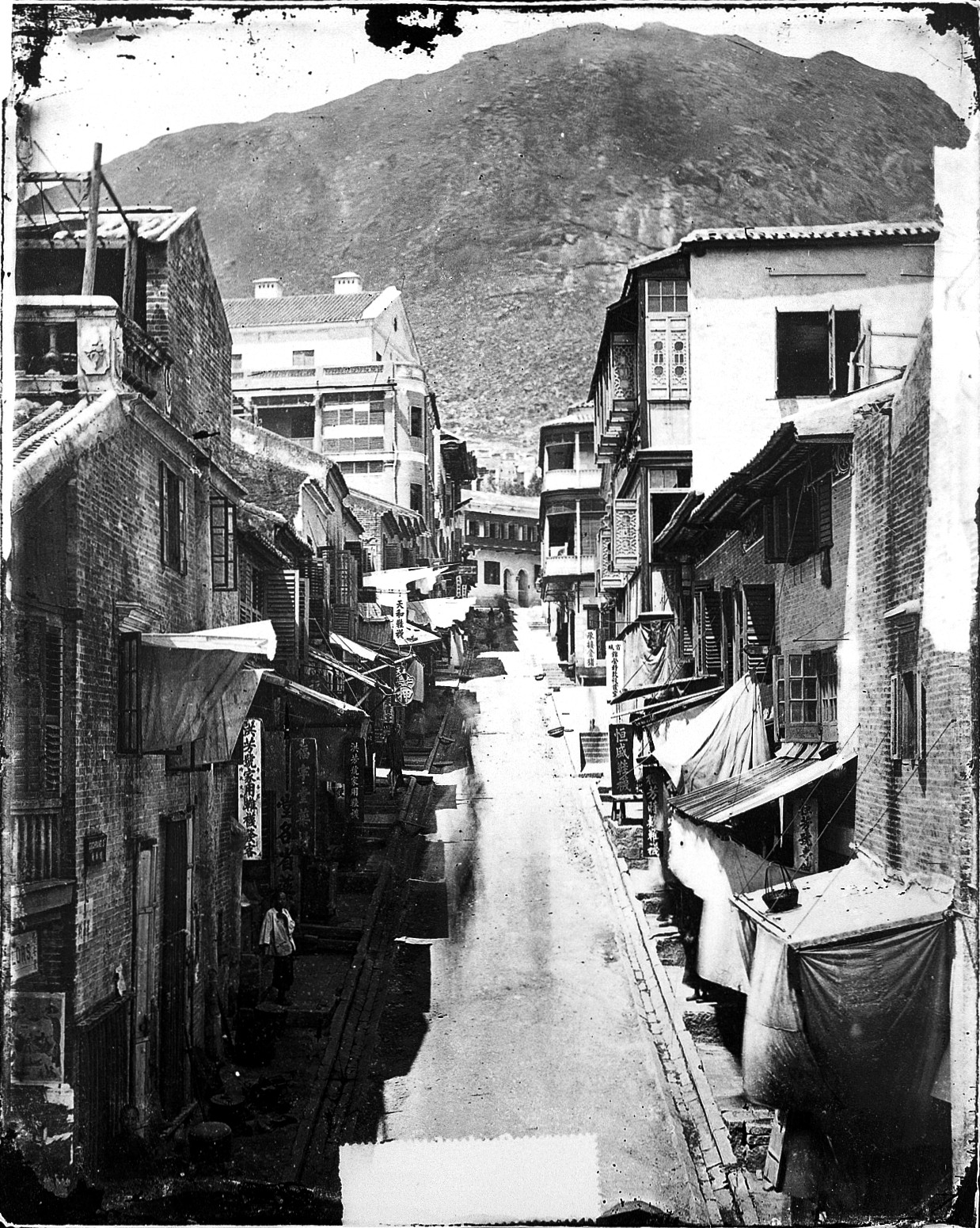 Cochrane Street, Hong Kong. Iconographic Collections Keywords: China; John Thomson; John Thomson